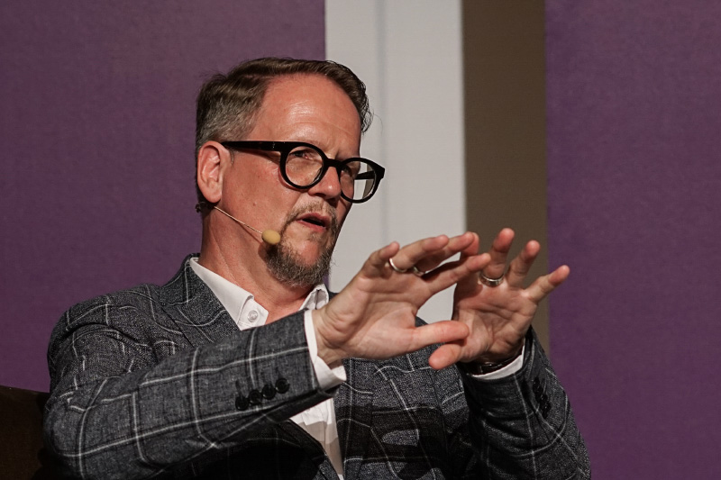 Sjón (Sigurjón Birgir Sigurðsson) at LitteratureXchange Festival in Aarhus (Denmark 2019)